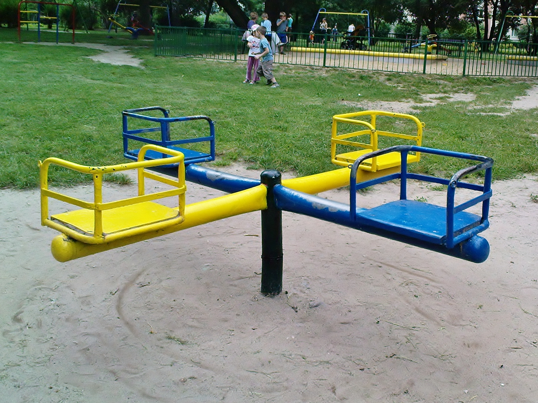 Kraków Kozłówek - the carousel on the playground for children